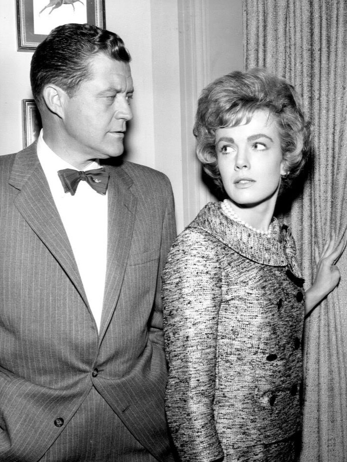 Photo of Dennis Morgan and Joanna Barnes from the summer replacement television program 21 Beacon Street.